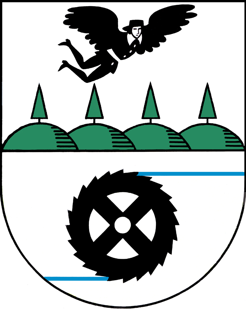 Coat of arms of Schwarzkollm (Saxony, Germany) Hornjoserbsce: Wopon Čorneho Chołmca.